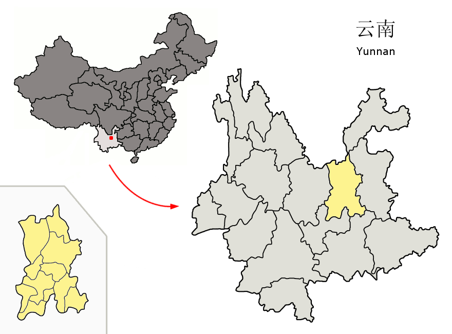 Location of Kunming prefecture (yellow) within Yunnan province of China. 简体